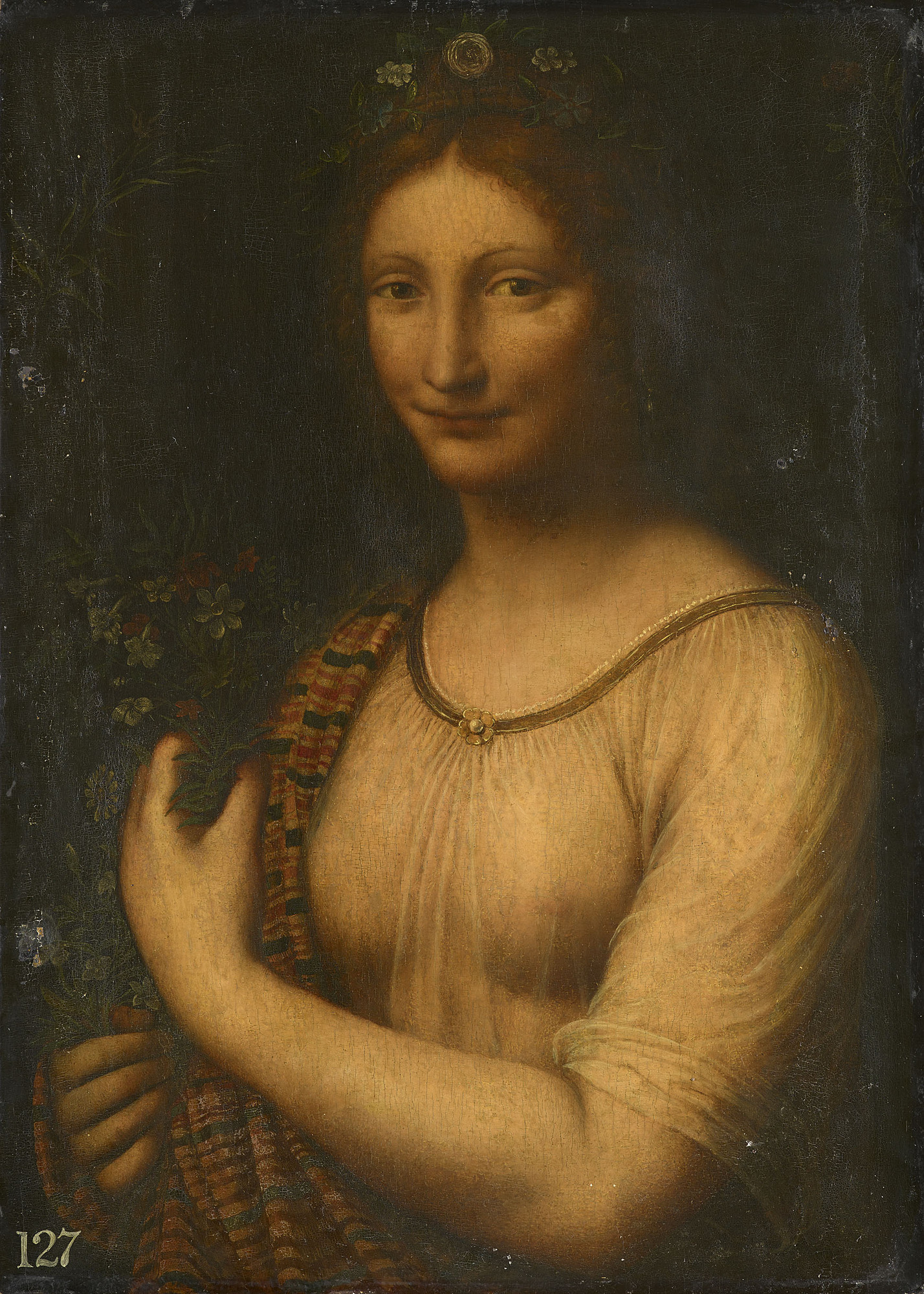 Flora. c.1530. Royal Collection Oil on panel | 56.1 x 40.1 x 1.4 cm (support, canvas/panel/str external) | RCIN 405474